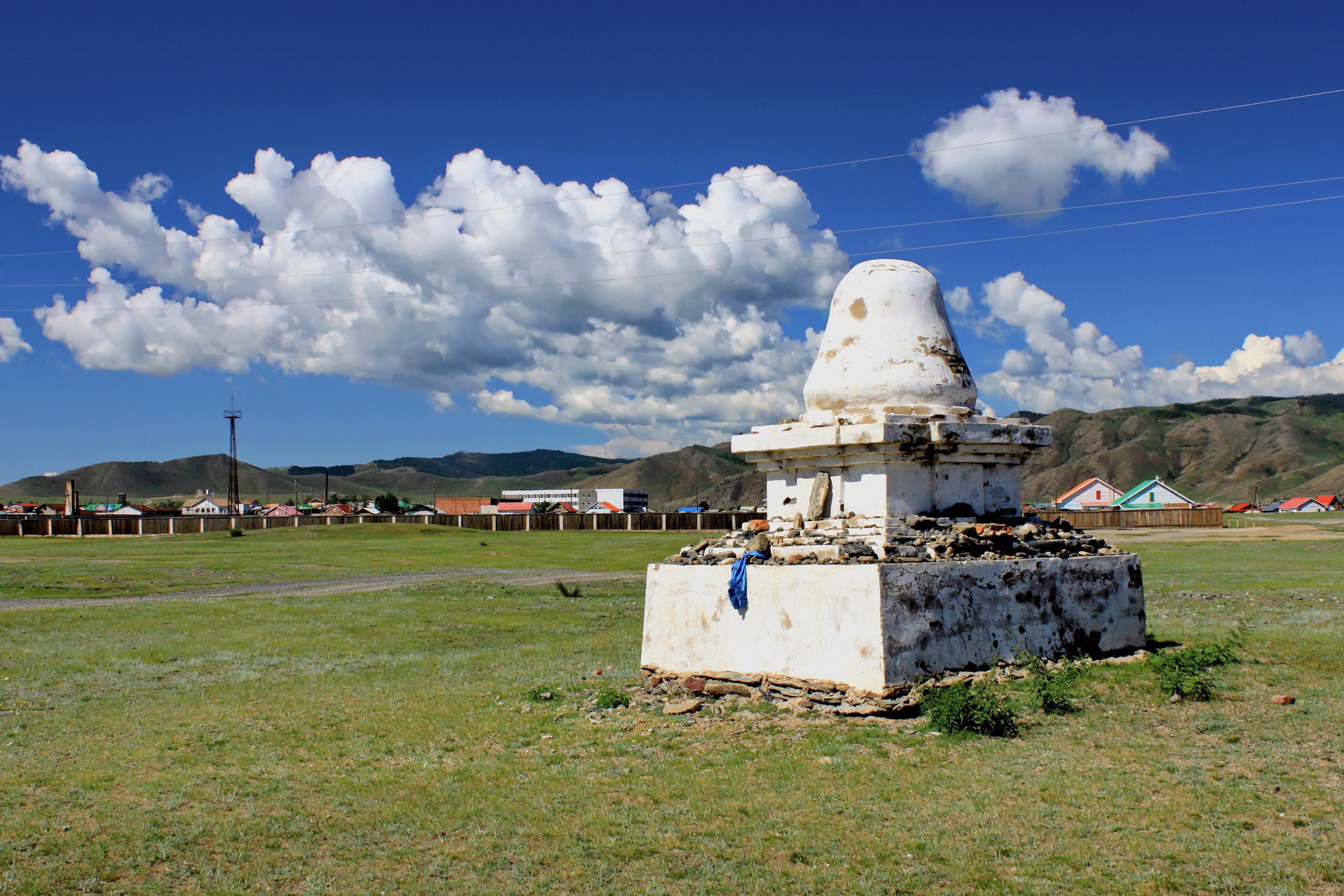 Old, damaged stupa of Nirvana. Kharkhorin, Övörkhangai Province, Mongolia.